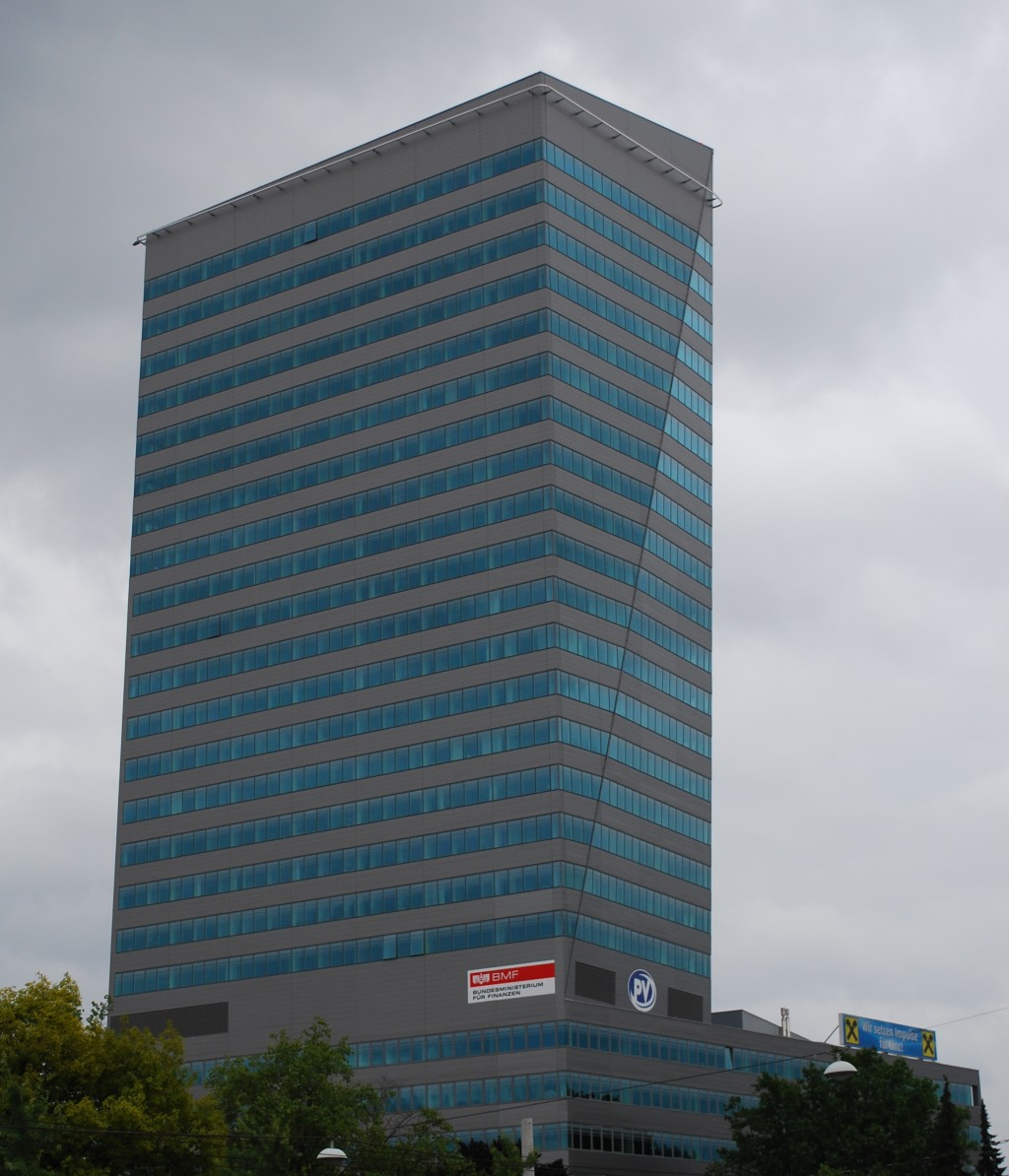 Terminal Tower near the main train station in Linz, Austria. View from north-east.